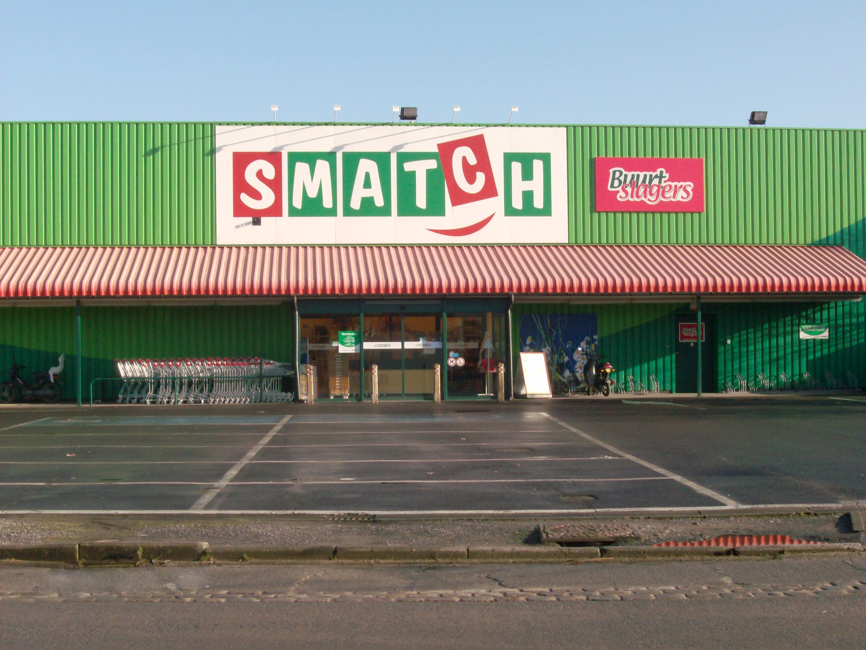 A smatch-shop in Lokeren (Drongenstraat street, near Zeveneken, Lochristi). Lokeren, East Flanders, Belgium